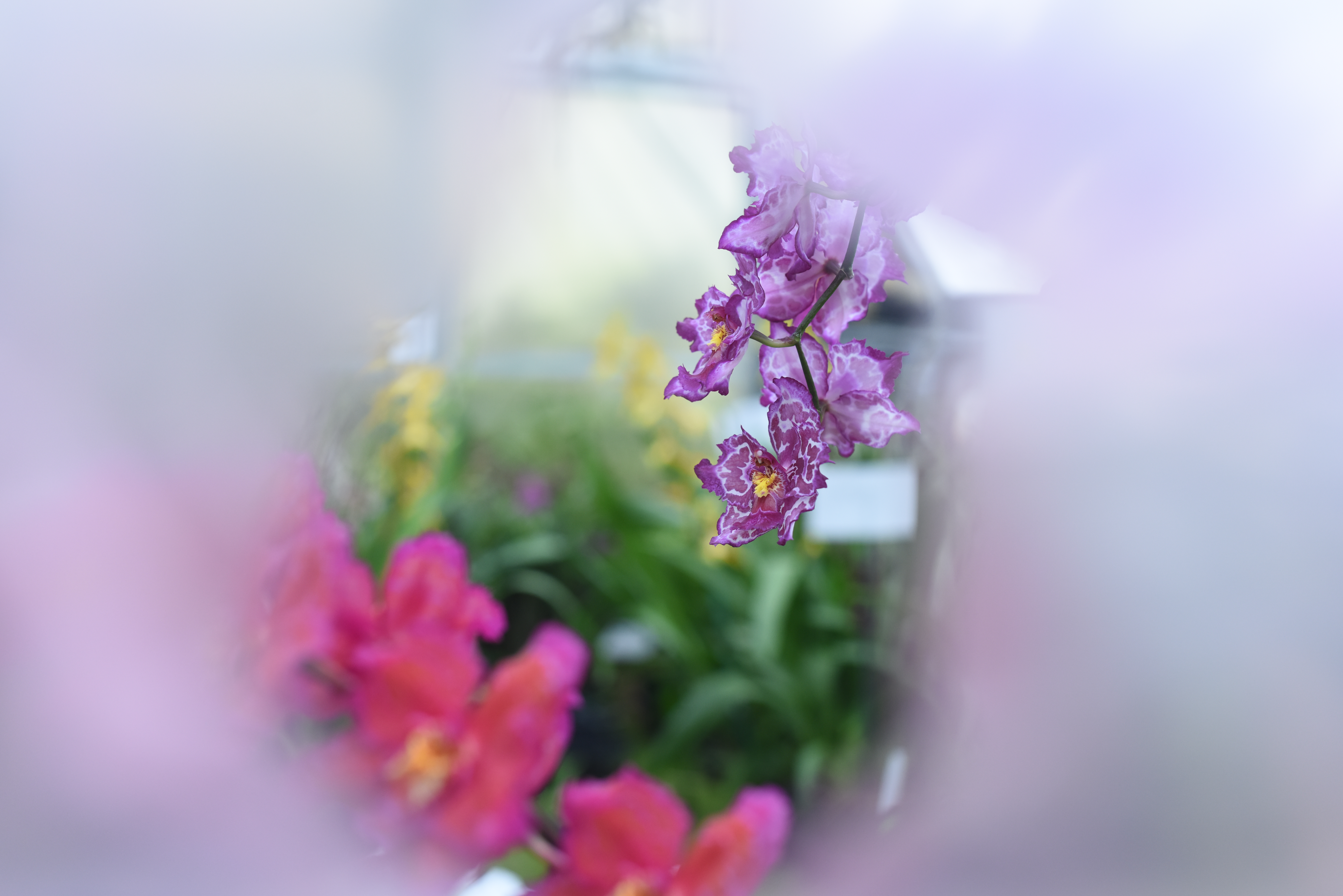 Orchid VII